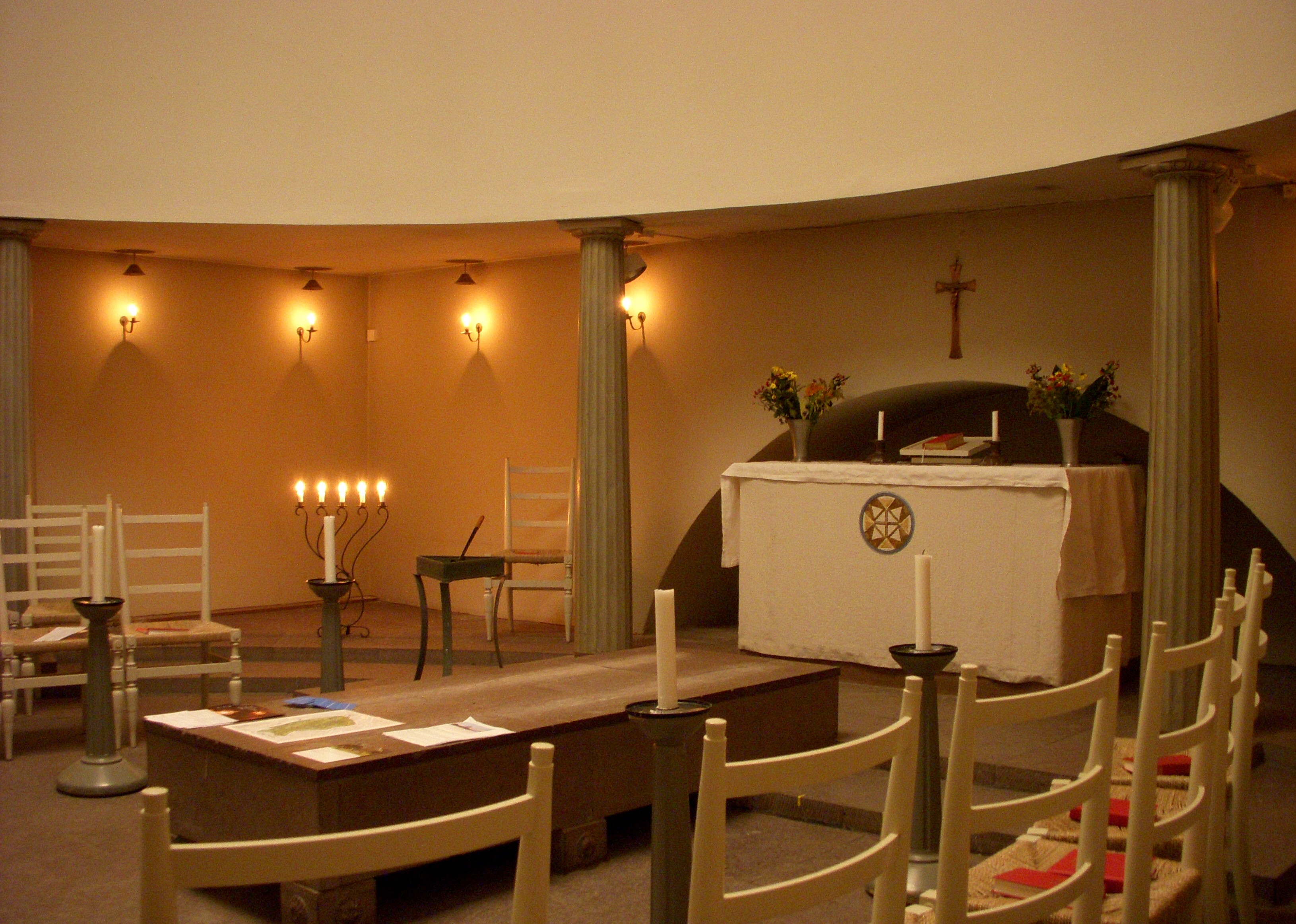 Skogskyrkogården chapel interior, Skogskapellet, Sweden.